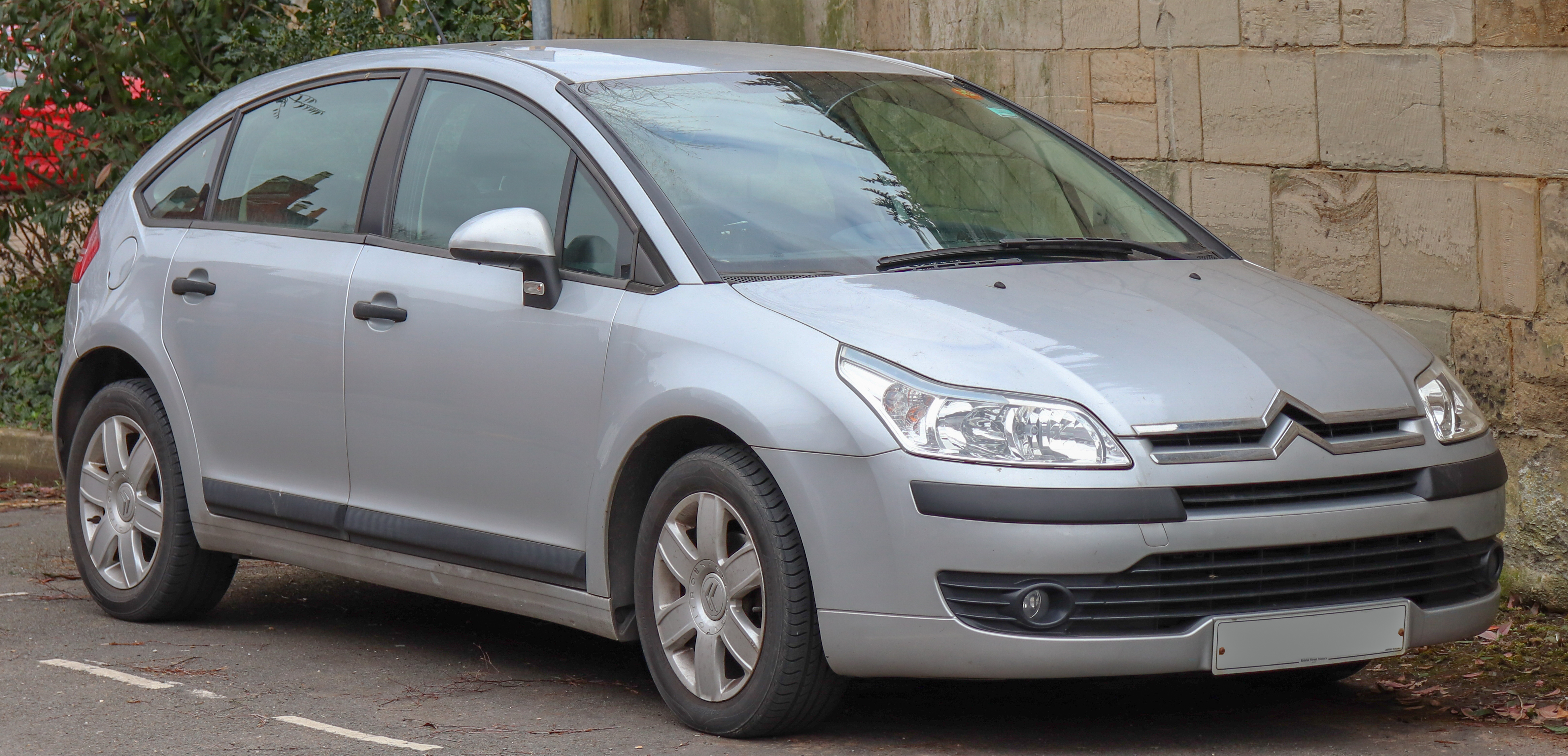 2006 Citroen C4 SX 1.6 Front Taken in Warwick